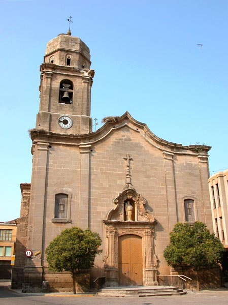 Sudanell, el Segriá, Catalonia. Parish Church of St. Peter. Baroque building (XVIII century) with three naves and square bell tower with octagonal upper body.